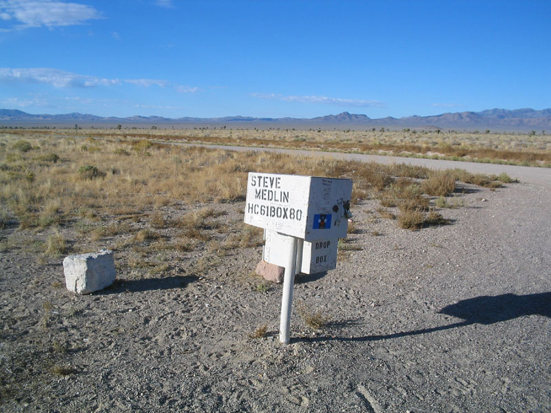 The so-called "Black Mailbox" on SR-375, near Rachel NV. The mailbox lies at the end of Groom Lake Road and belongs to local rancher Steve Medlin.